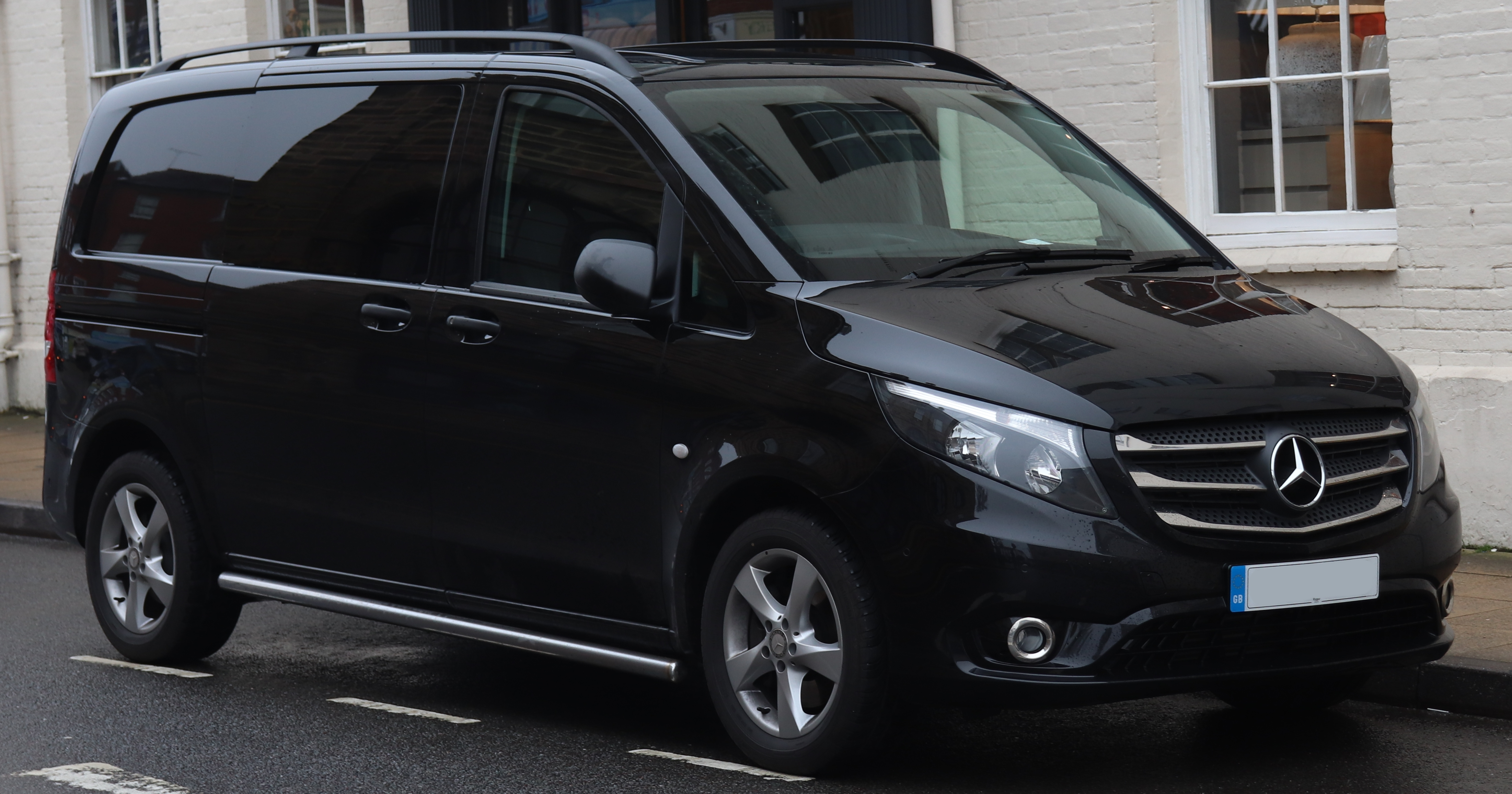 2018 Mercedes-Benz Vito 119 Sport Bluetec Automatic 2.1 Front Taken in Warwick